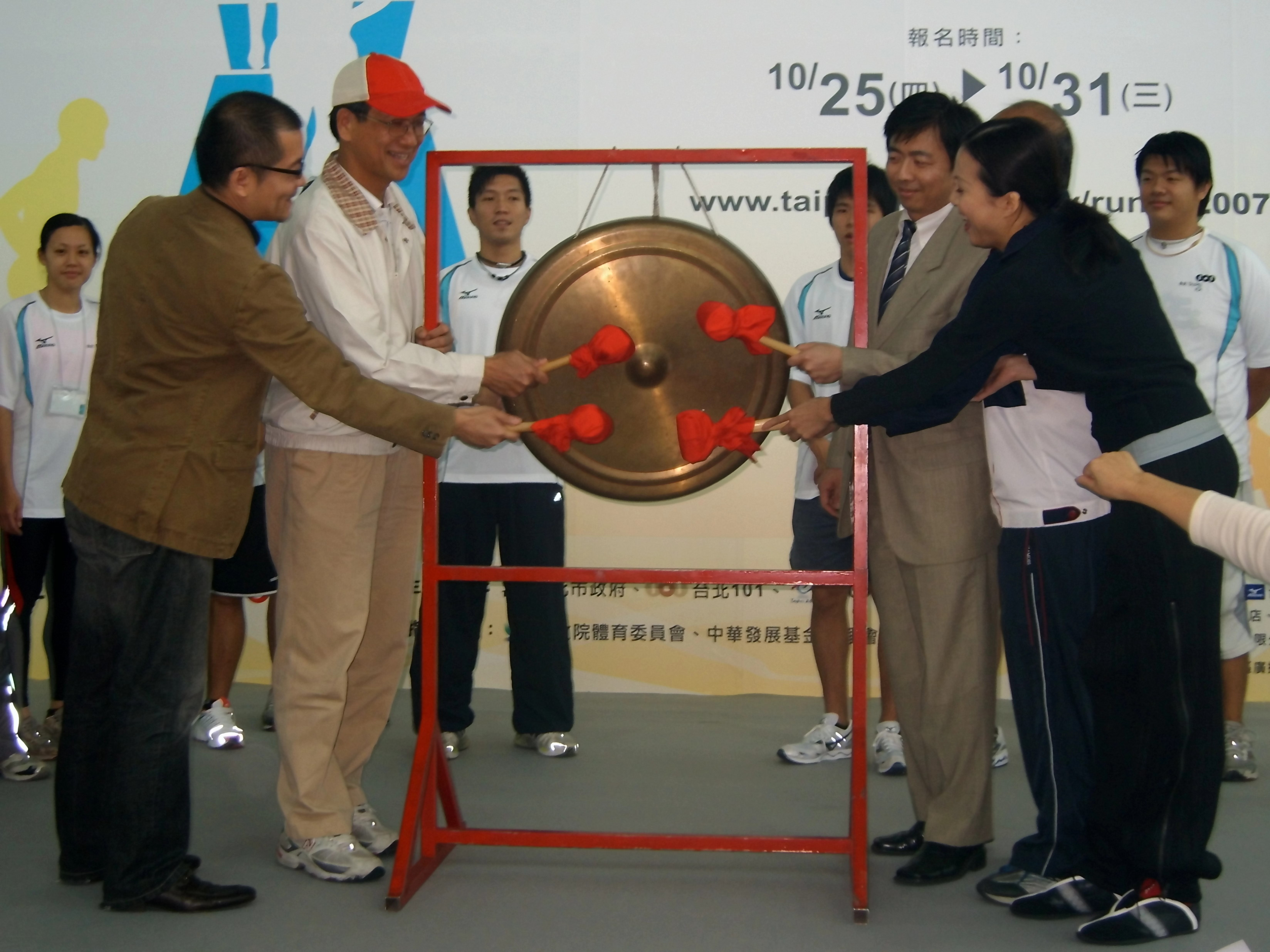 Executives launch the Warming Up of 2007 Taipei 101 Run Up.